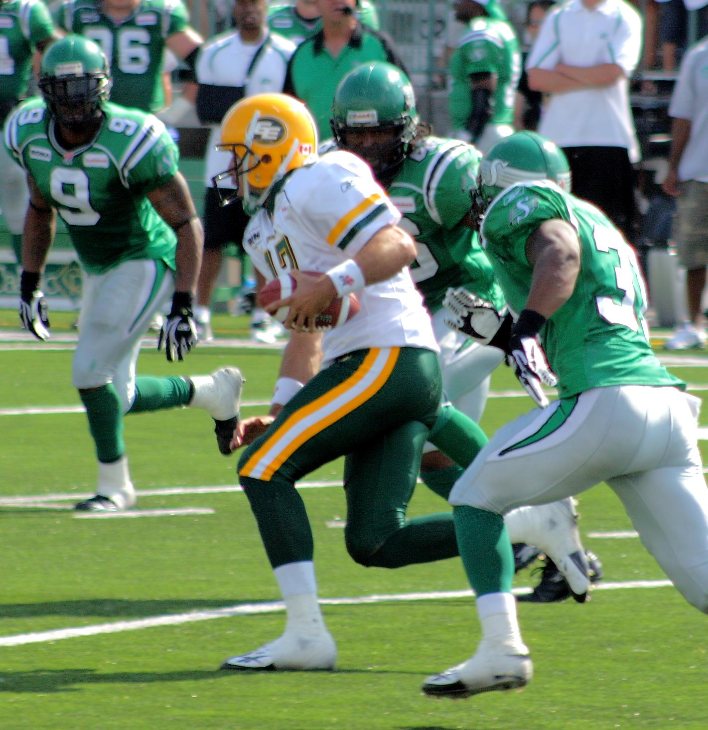 Stefan LeFors by Daniel Paquet from This image may be on Commons as :commons:File:Reggie_Hunt.jpg